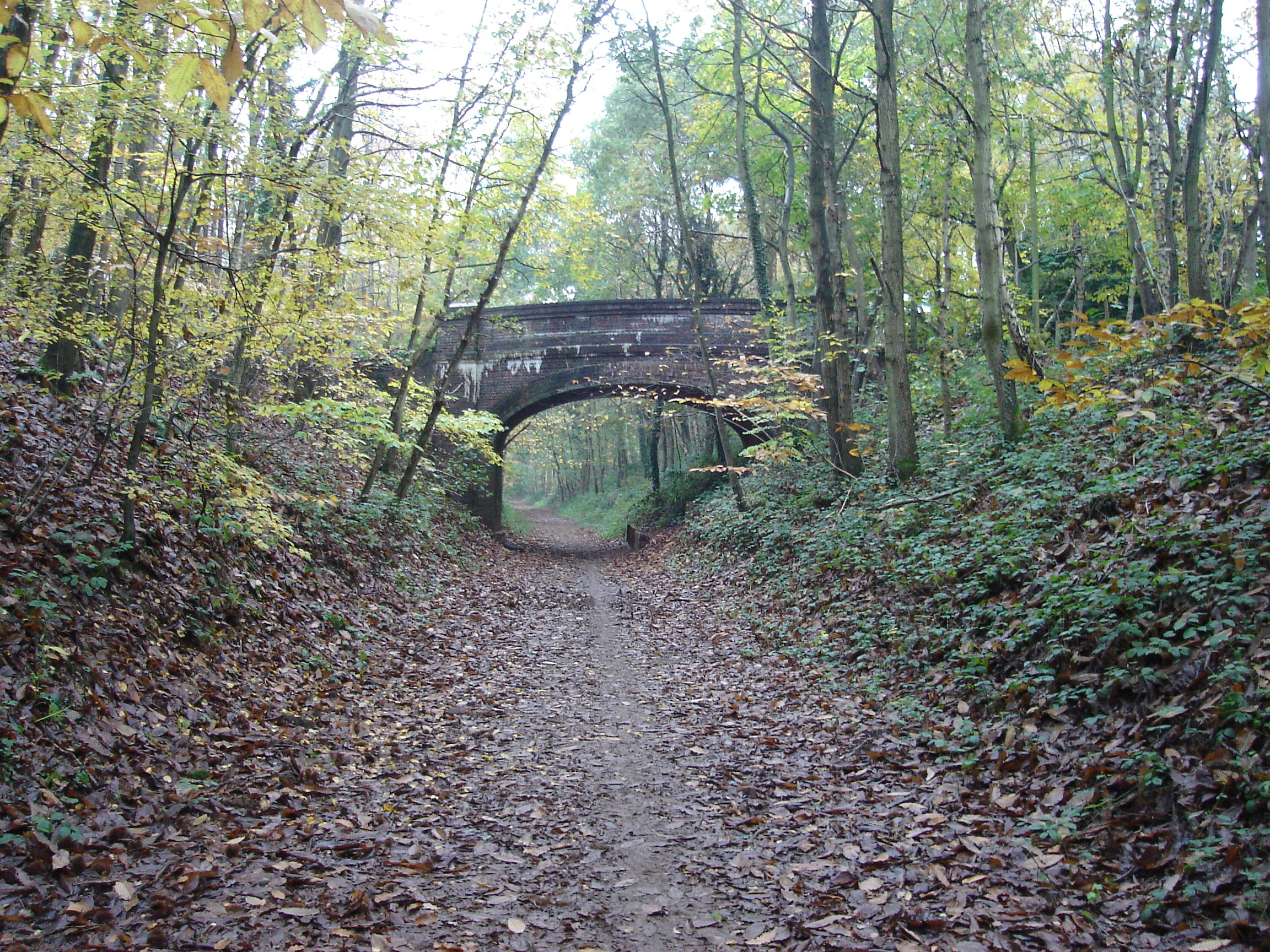 Picture of bridge on Marriott's Way, Norfolk